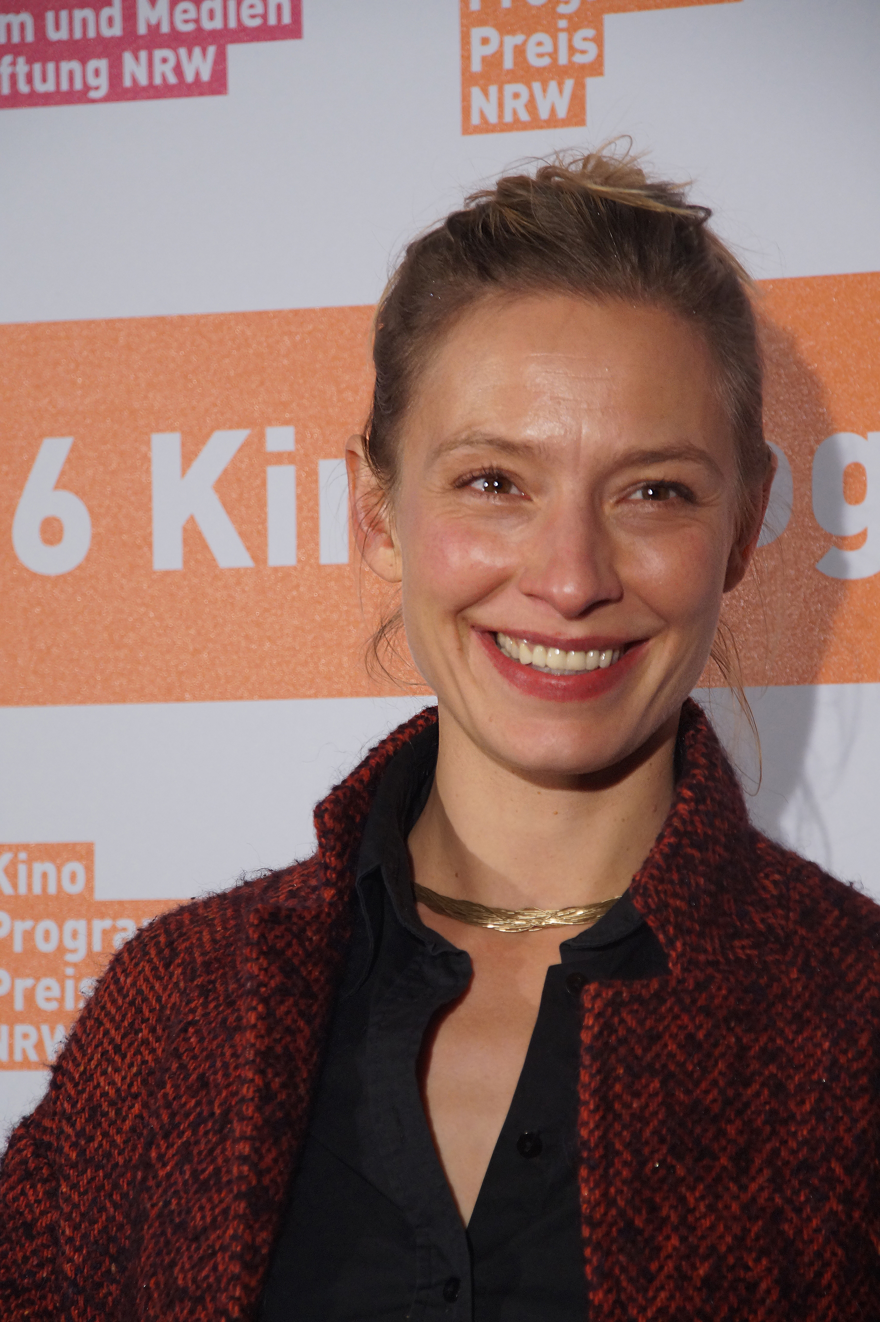 Sandra Borgmann beim NRW Kinoprogrammpreis, November 2016, Köln.